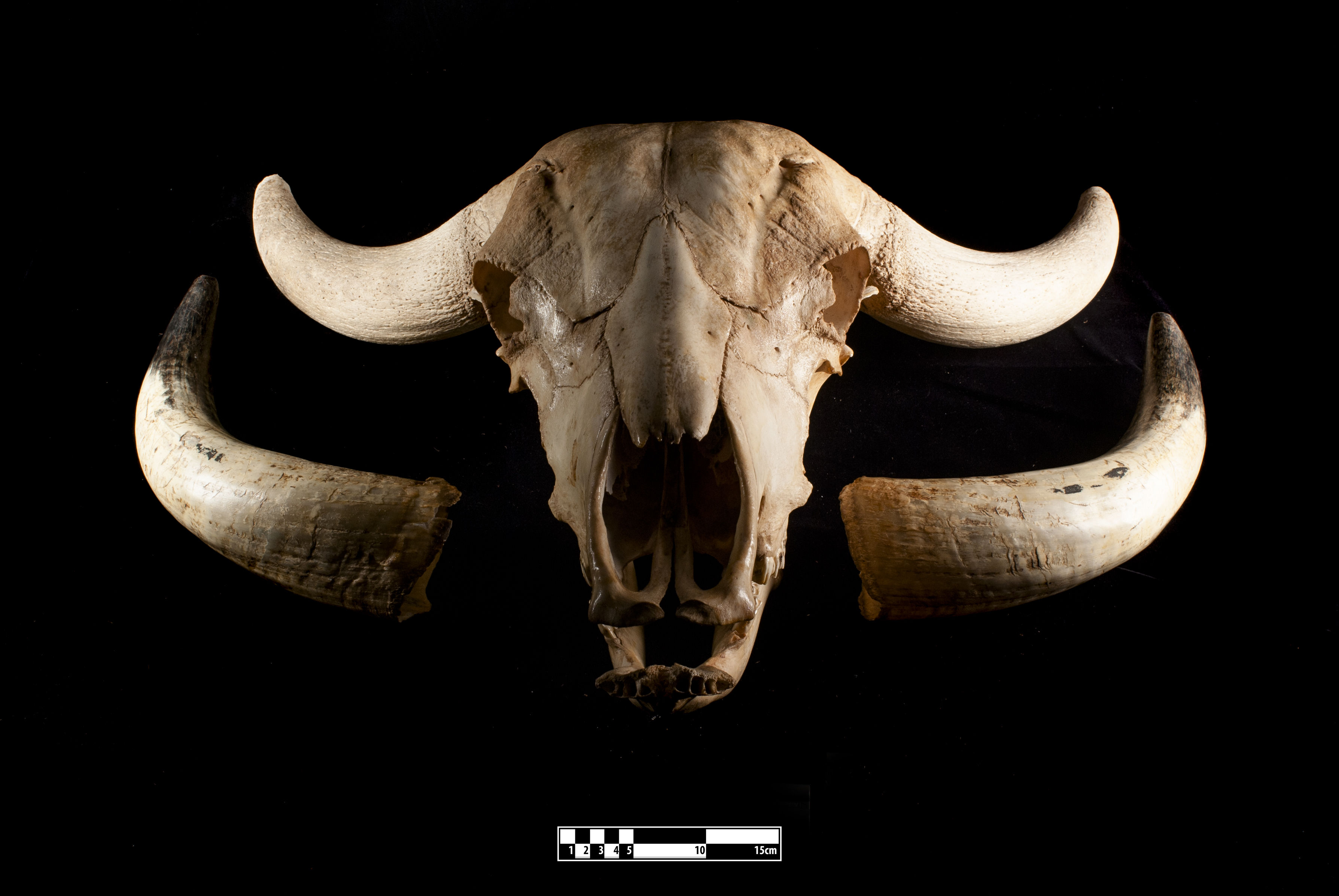 Water buffalo skull (Bubalus bubalis). Specimen of buffalo skull and horns prepared by the bone maceration technique and on display at the Museum of Veterinary Anatomy FMVZ USP. This file was published as the result of a partnership between the Museum of Veterinary Anatomy FMVZ USP, the RIDC NeuroMat and the Wikimedia Community User Group Brasil. This GLAM project is reported. Photography: Museum of Veterinary Anatomy FMVZ USP. Author: Wagner Souza e Silva.